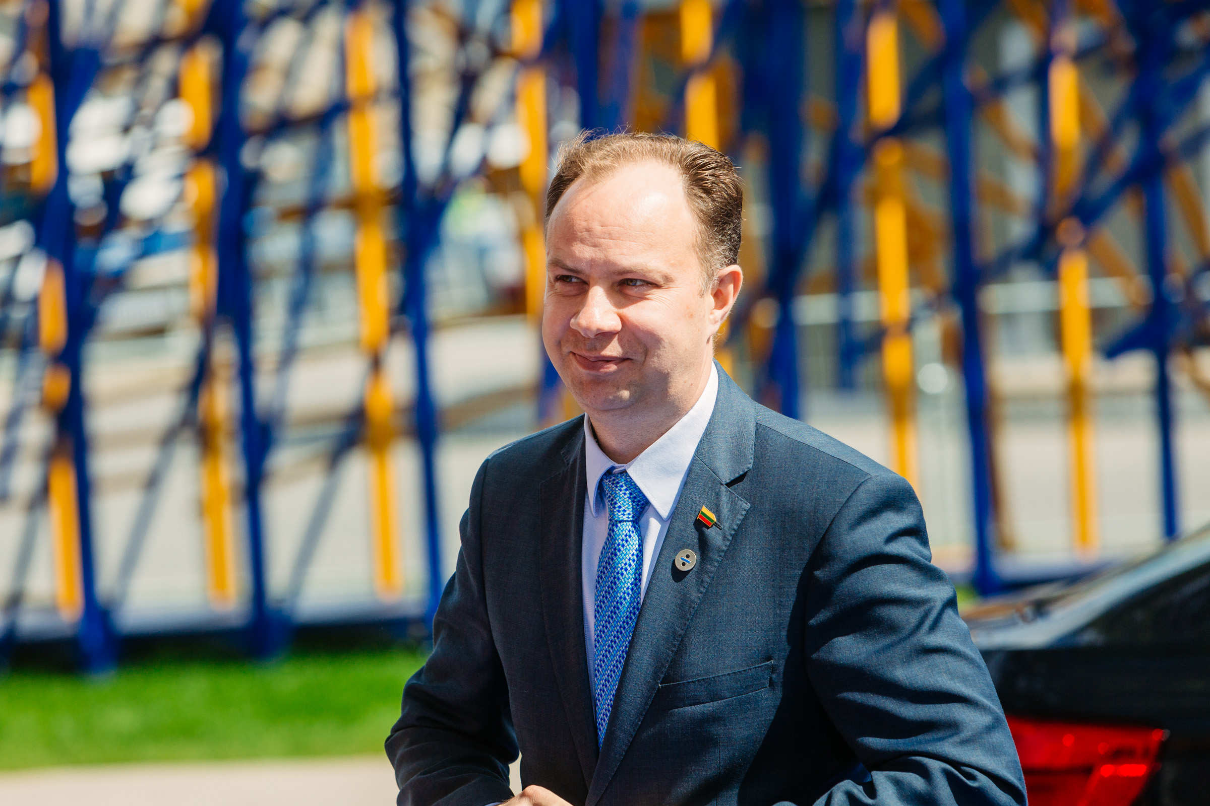 Aurelijus Veryga, Minister, Ministry of Health, Lithuania